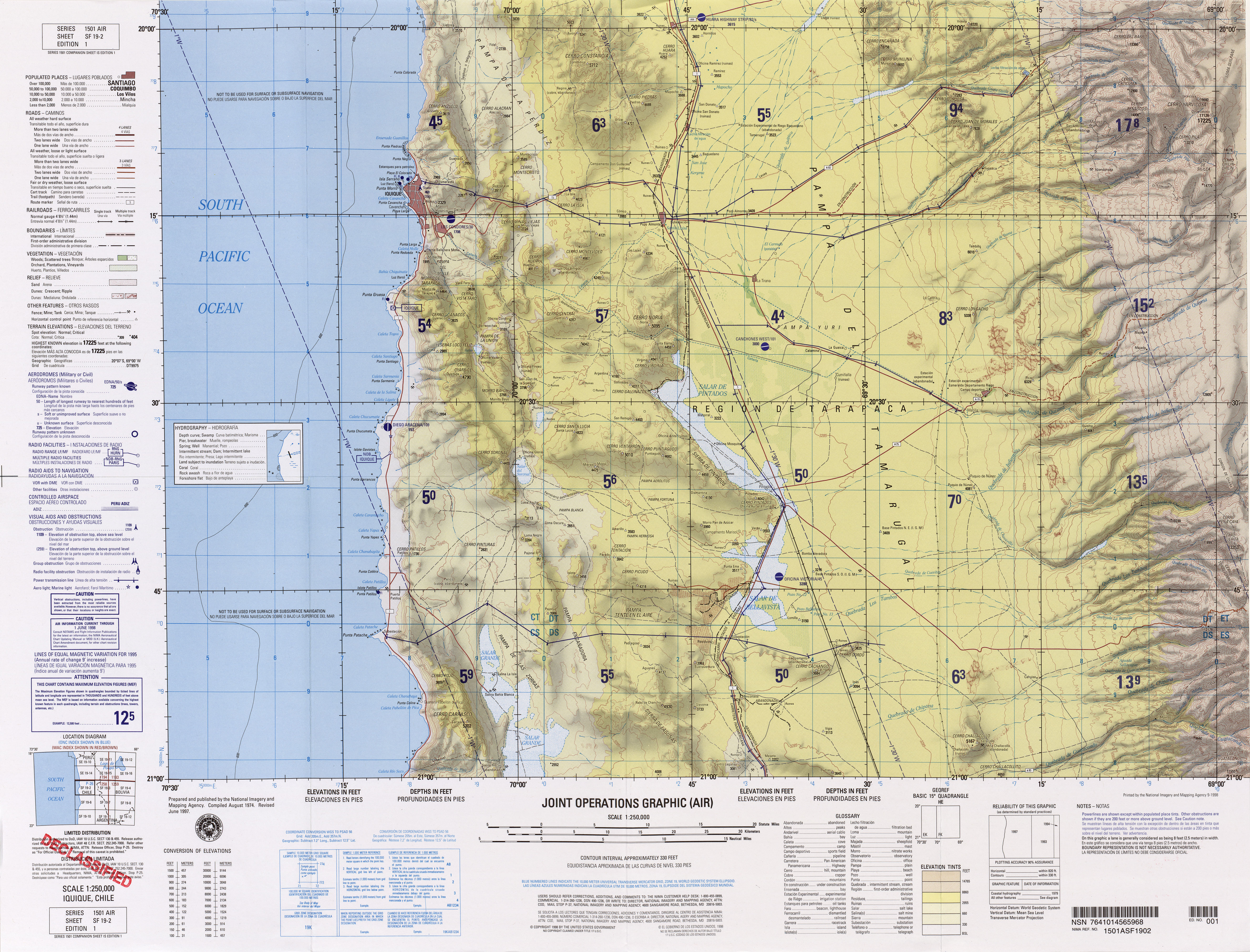 Iquique costero